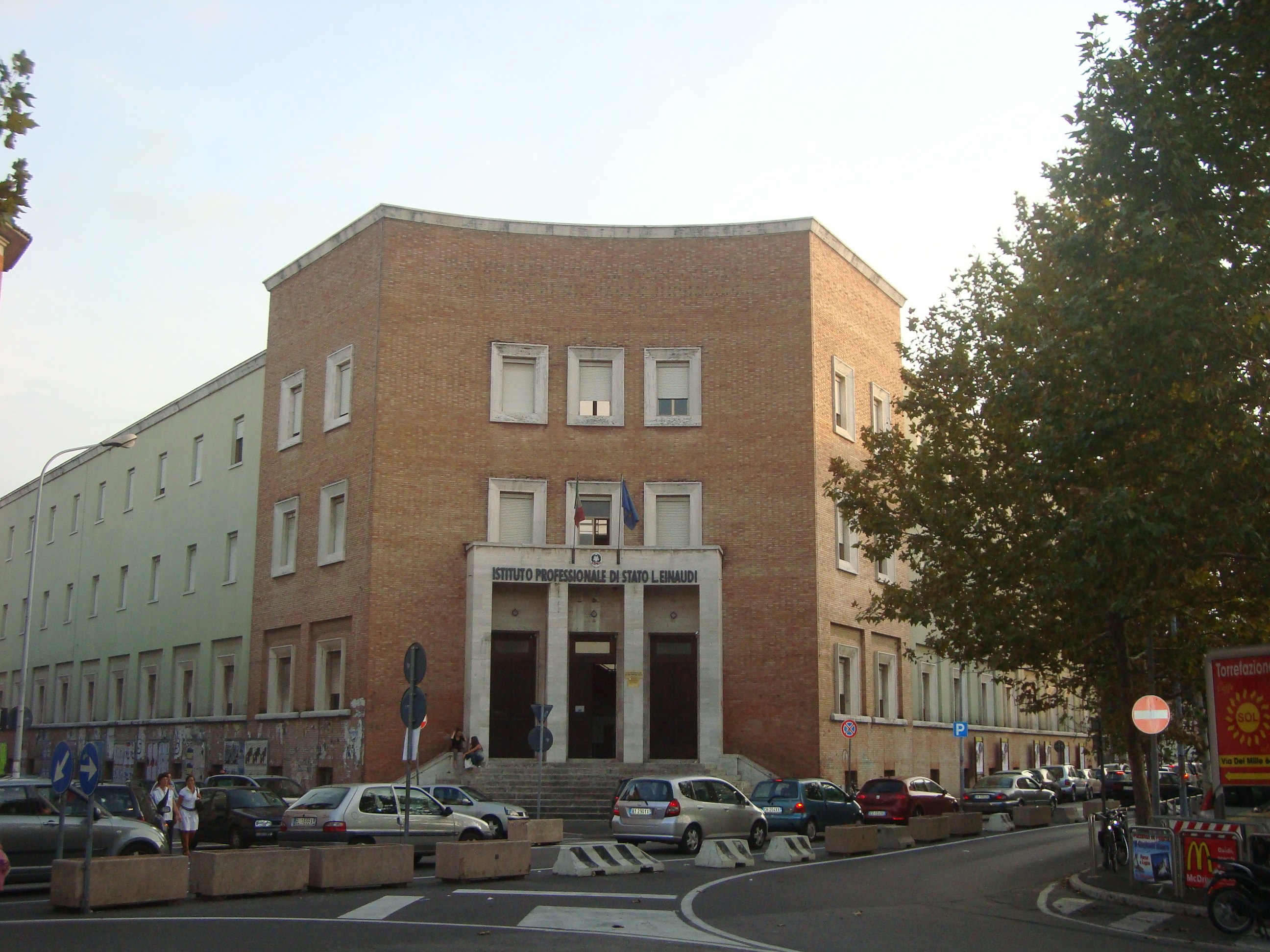 Umberto Tombari, building of former Regia Scuola Tecnica Industriale in Grosseto